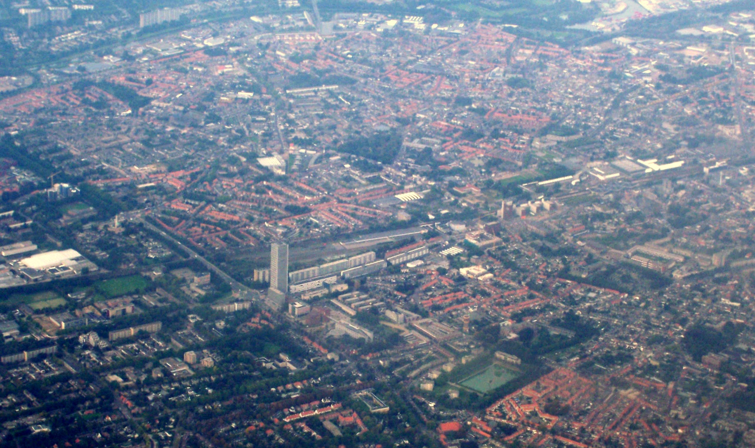 Air photo Tilburg